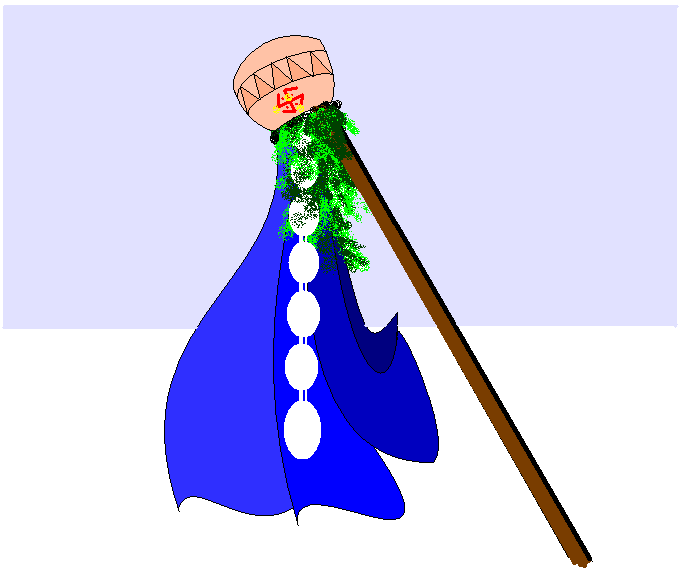 This is a picture of the Gudi that is raised on the occasion of Gudi Padwa